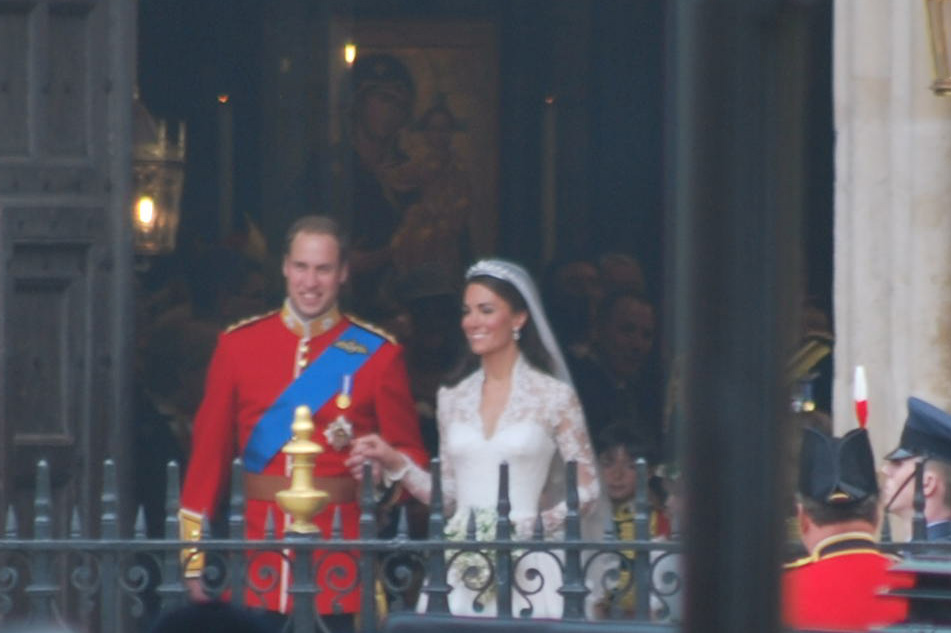 Wedding of Prince William of Wales and Kate Middleton